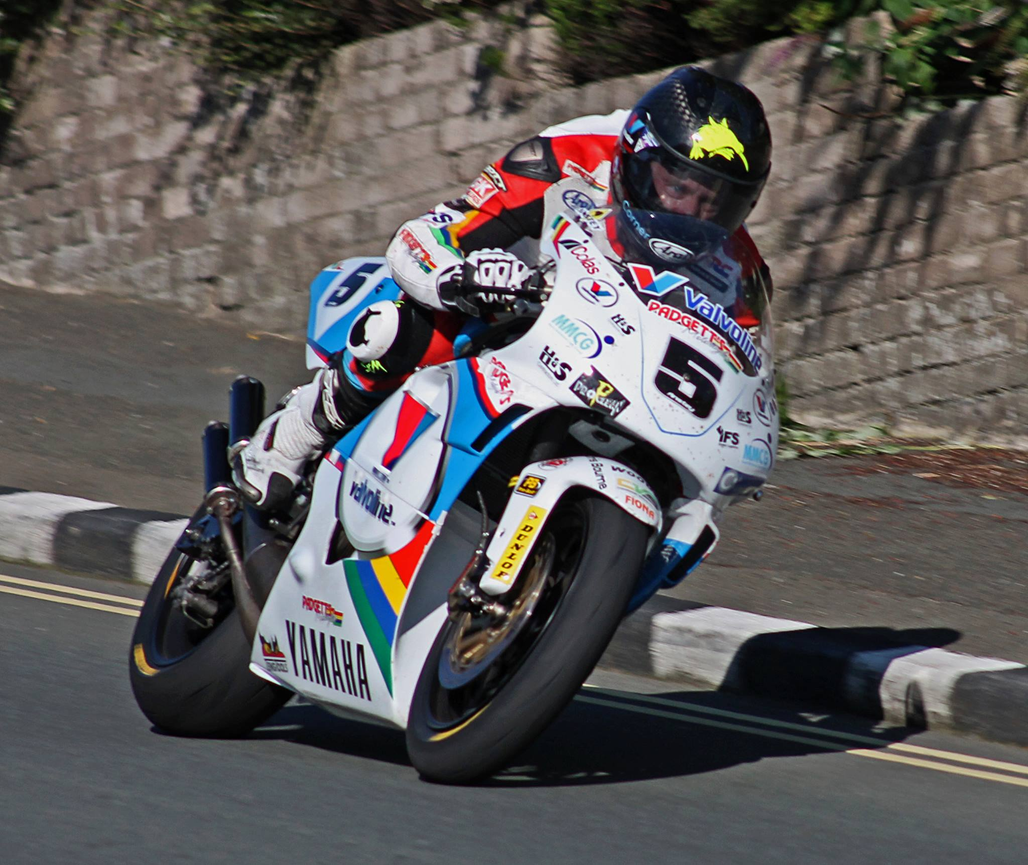 Bruce Anstey descends Bray Hill astride a Yamaha YZR 500 during the Motorsport Merchandise Formula 1 and Formula 2 Race, 2015.